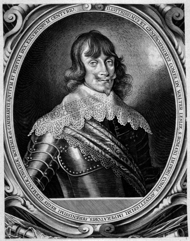 The scottish born Feldmarschall of the Holy Roman Empire Walter Leslie (1607-1667)